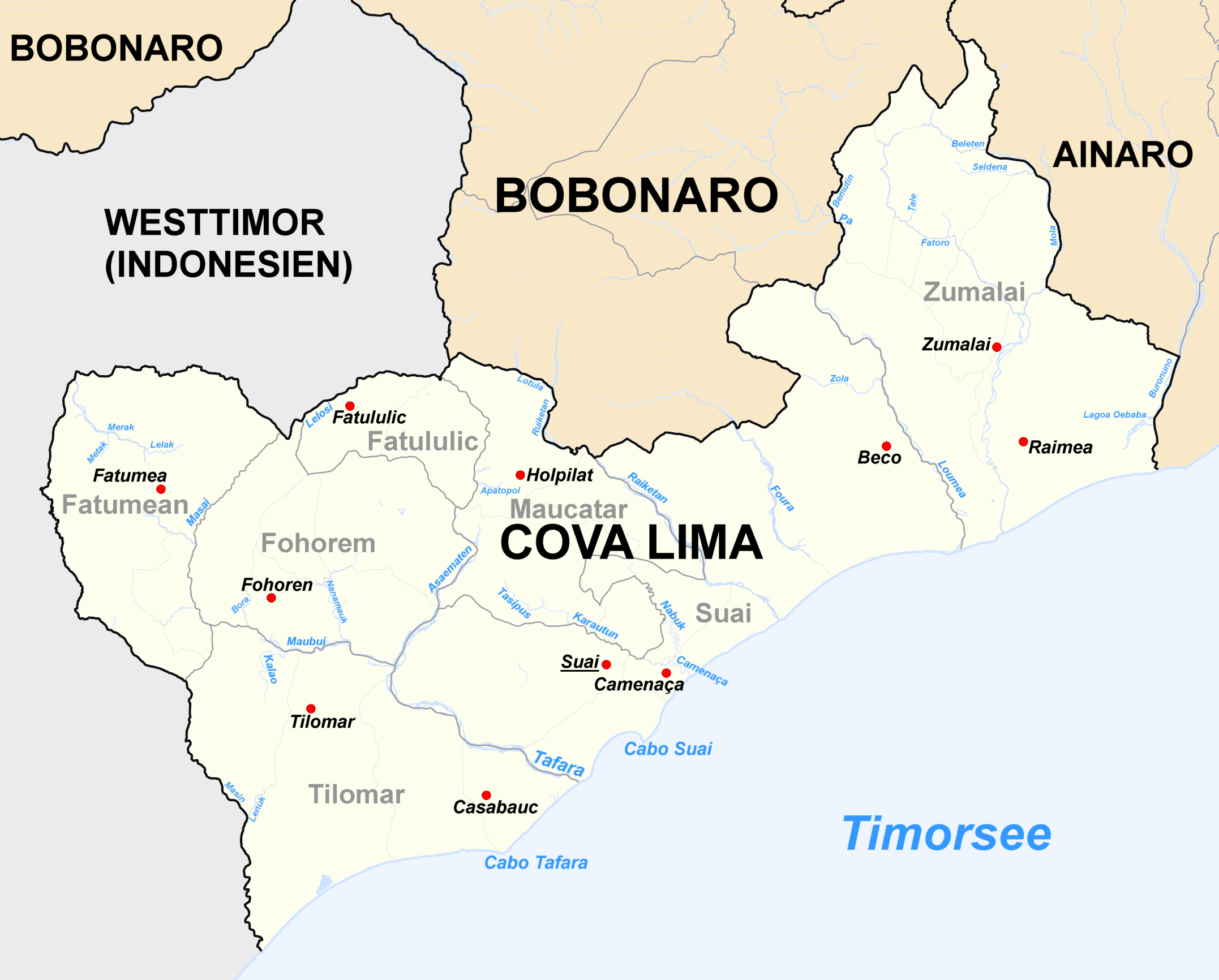 Cities and rivers of district of Cova Lima (East Timor). Urban sucos in pink.